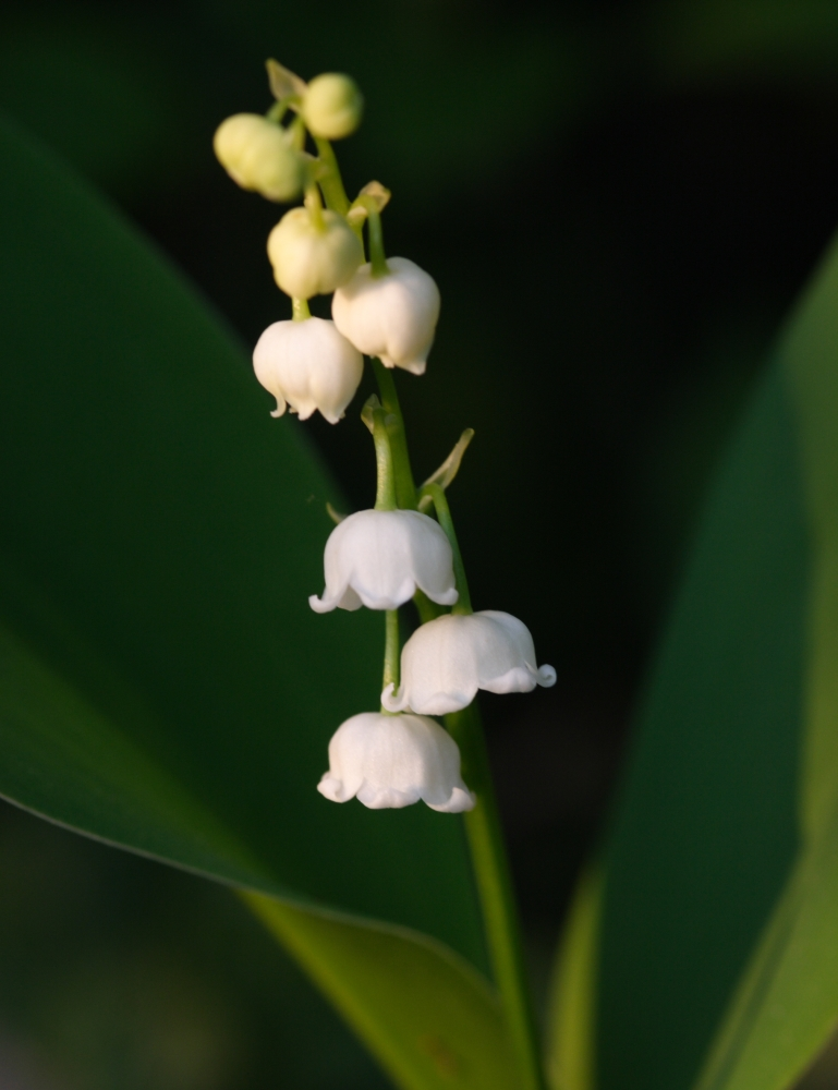 Lily of the valley in Fertőrákos, Hungary